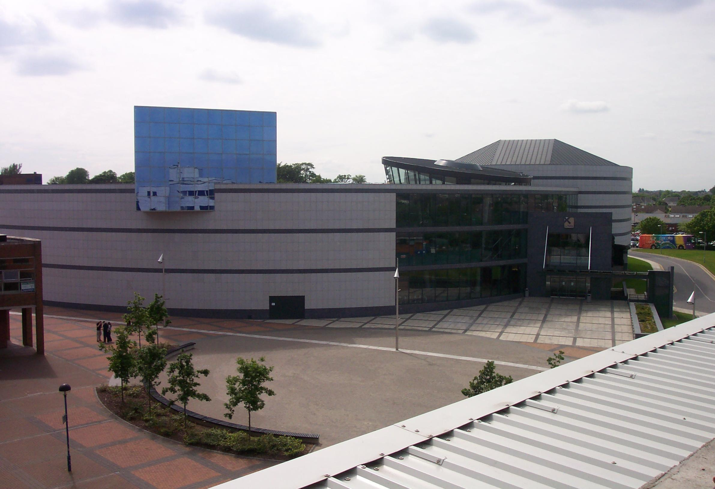 The Helix This photograph was taken by Beta in June 2005.